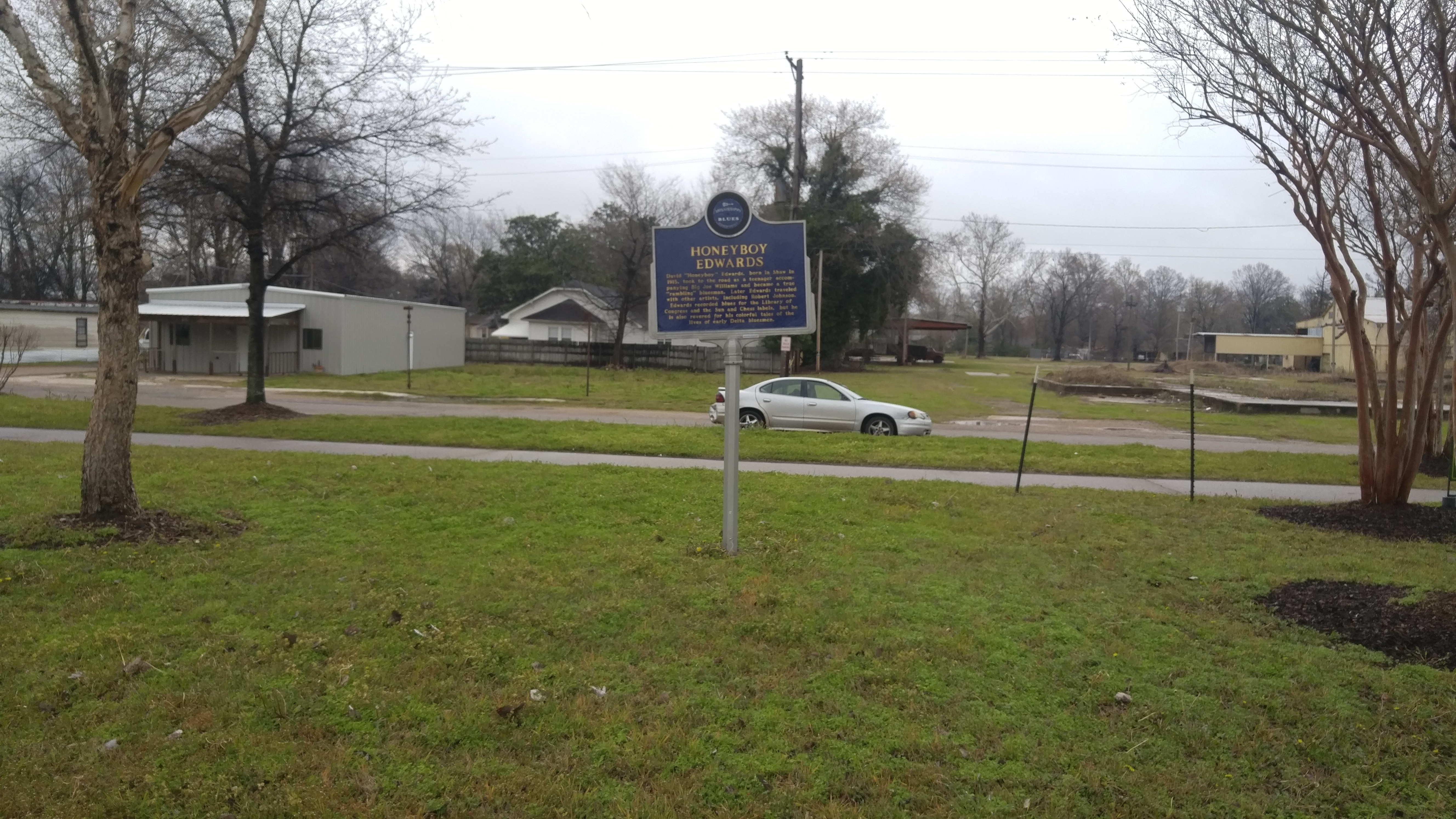 Blues trail marker located in downtown Shaw